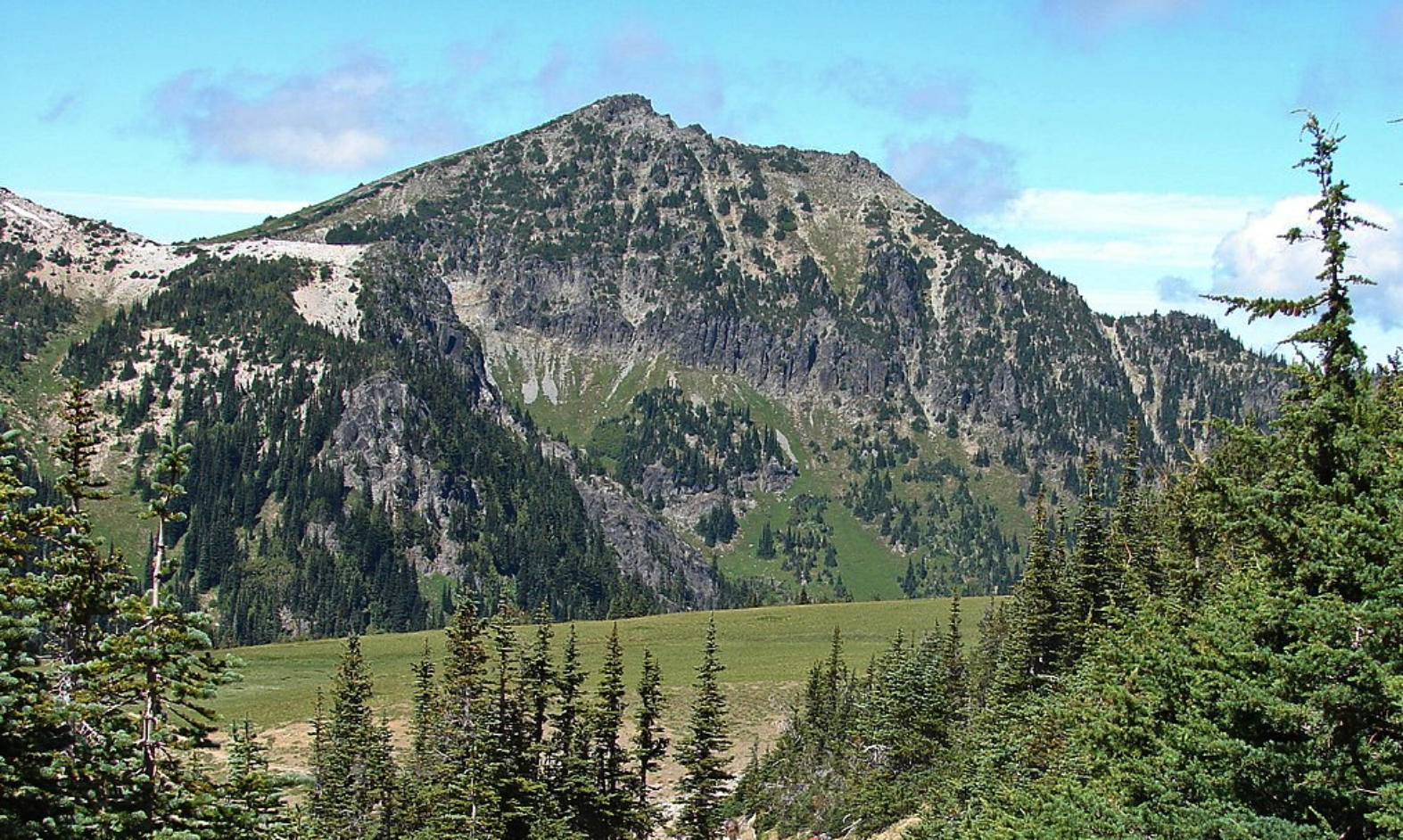 Skyscraper Mountain and Berkeley Park seen from Wonderland Trail